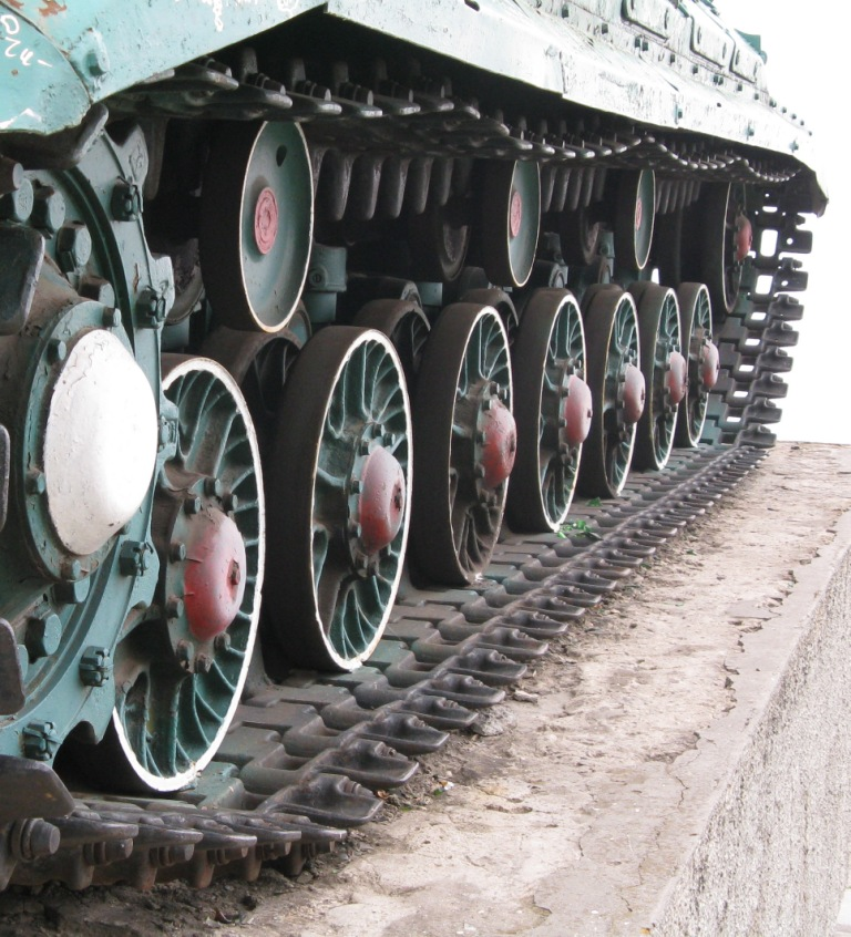 Chassis T-10M, tank mounted on the pedestal in Kagarlyk, Kiev Oblast.